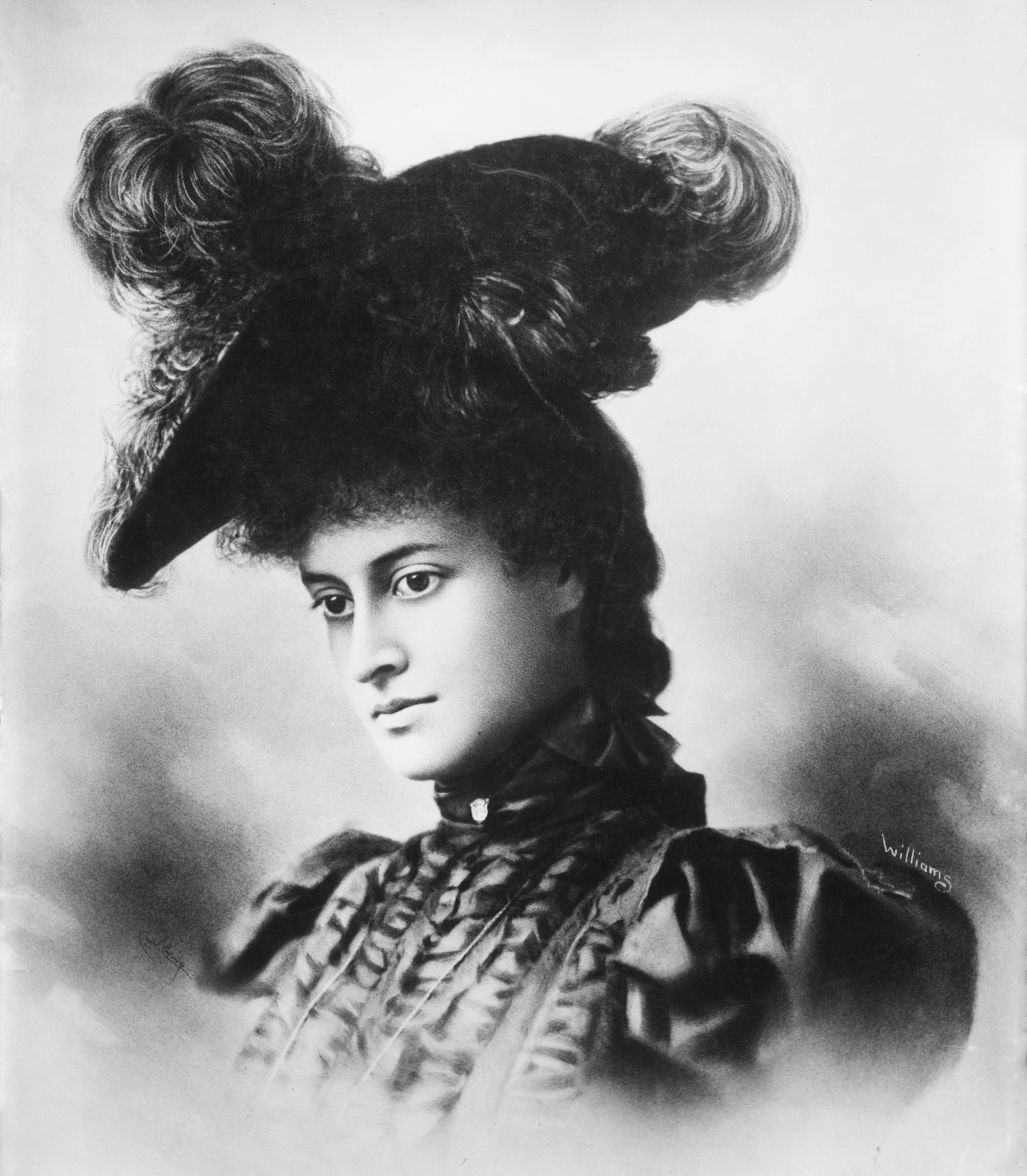 Kaiulani in San Francisco.